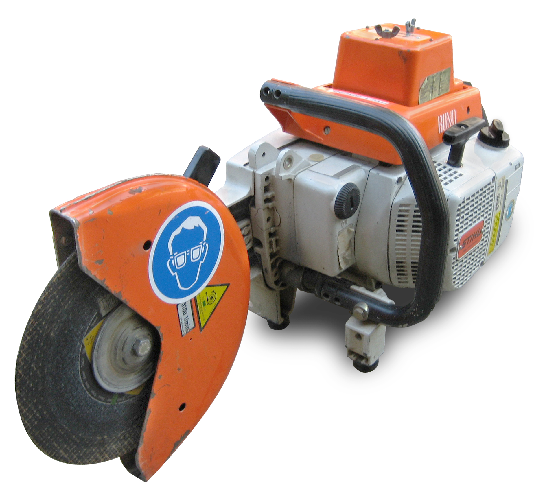 Grinder by STIHL, Germany